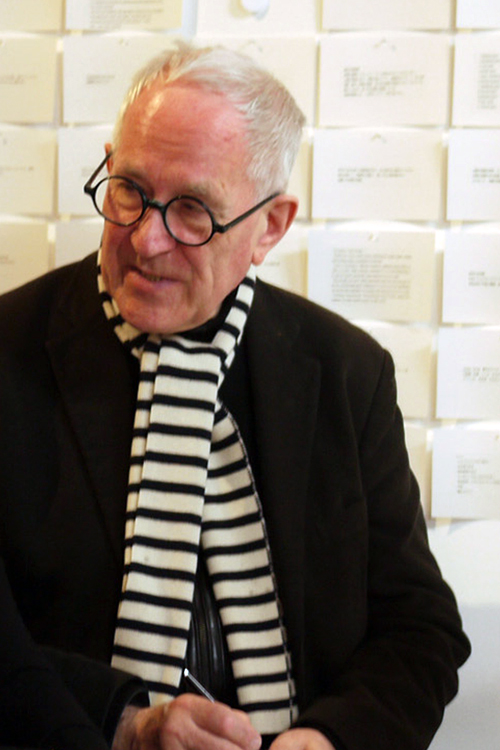 Professor Sir Peter Cook at a workshop at Kyoto Seika University, Japan